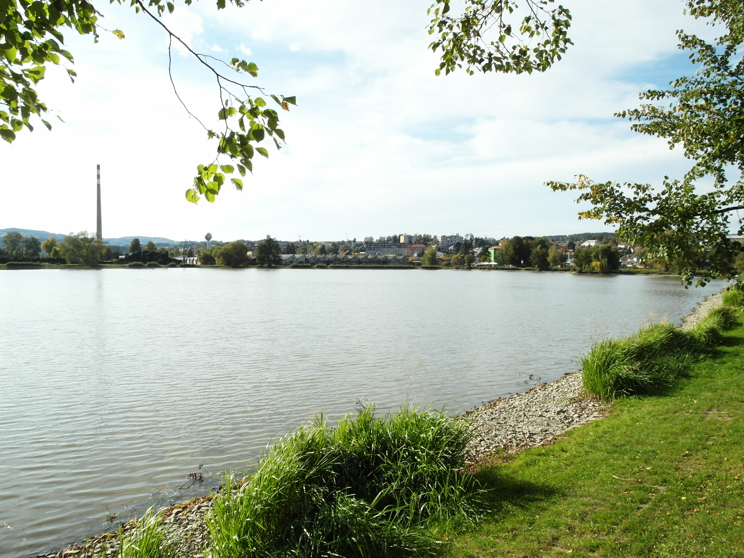 Zábřeh, Šumperk District, Czechia. Oborník pond.